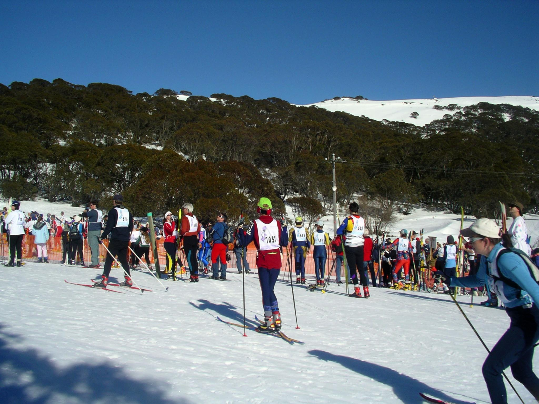 Skiers massing for the start of the 2005 Hoppet Ski Race